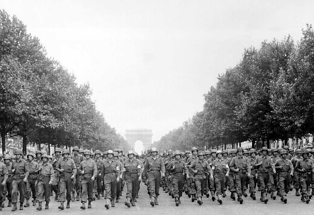 American troops of the 28th Infantry Division march down the Avenue des Champs-Élysées, Paris, in the `Victory' Parade.